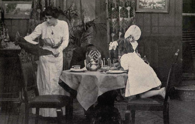 Film still from The Child and the Tramp (USA 1911). Published in David S. Hulfish, Cyclopedia of Motion-Picture Work (1914).